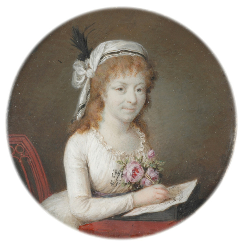 The miniature painter Marie Therese Noireterre (1760–1823)